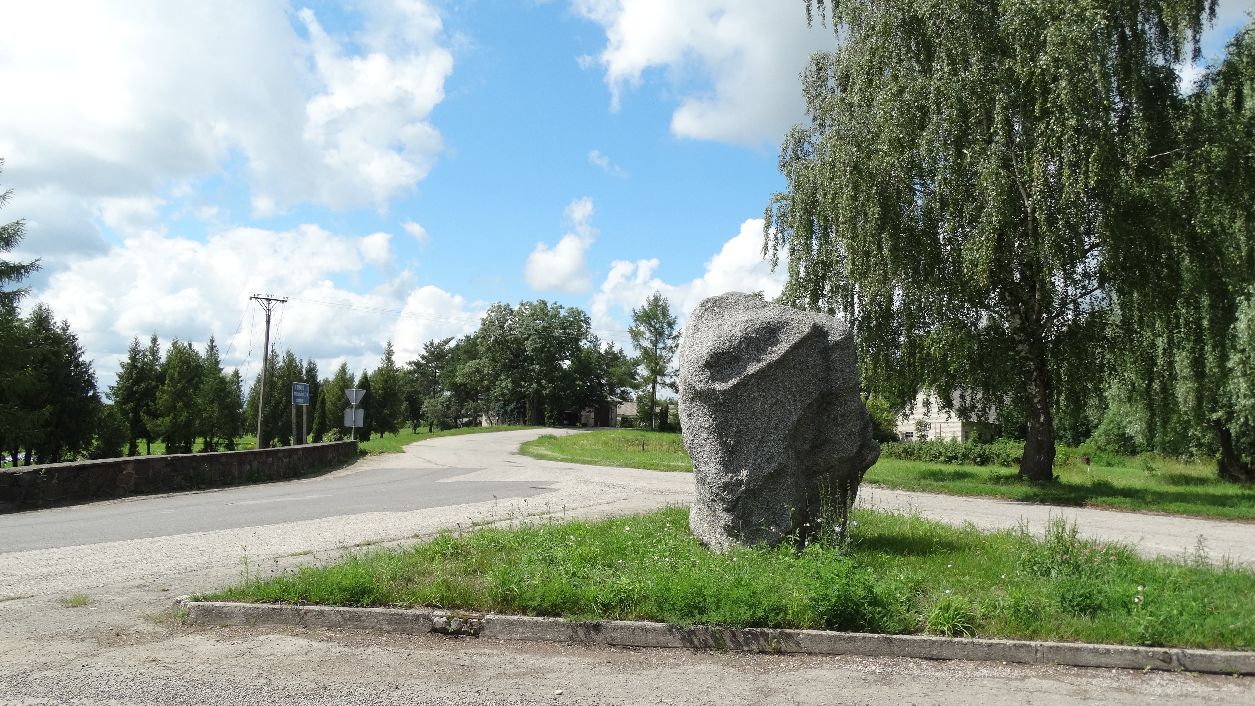 Gegužinė, Panevėžys district, Lithuania